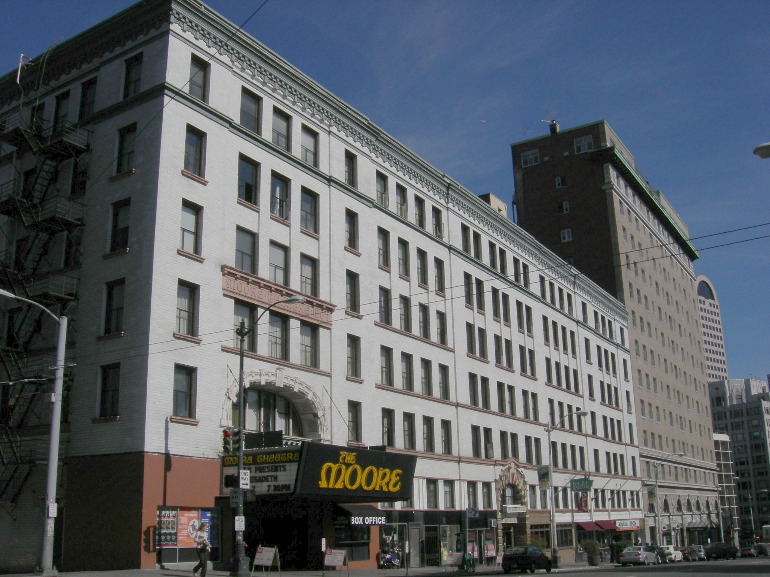 The Moore Theatre and Hotel (left) and the Josephinum (right; "Josephinium" in title is a misspelling), Seattle, Washington. The Moore Theatre and Hotel (built 1907) is on the National Register of Historic Places, ID #74001958. The Josephinum is also on the National Register, ID #89001607. Originally the New Washington Hotel, it is now subsidized senior housing. Both buildings are also listed as city landmarks.